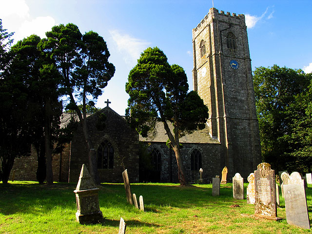 Church at Roche. A view of the Church situated at the intersection.